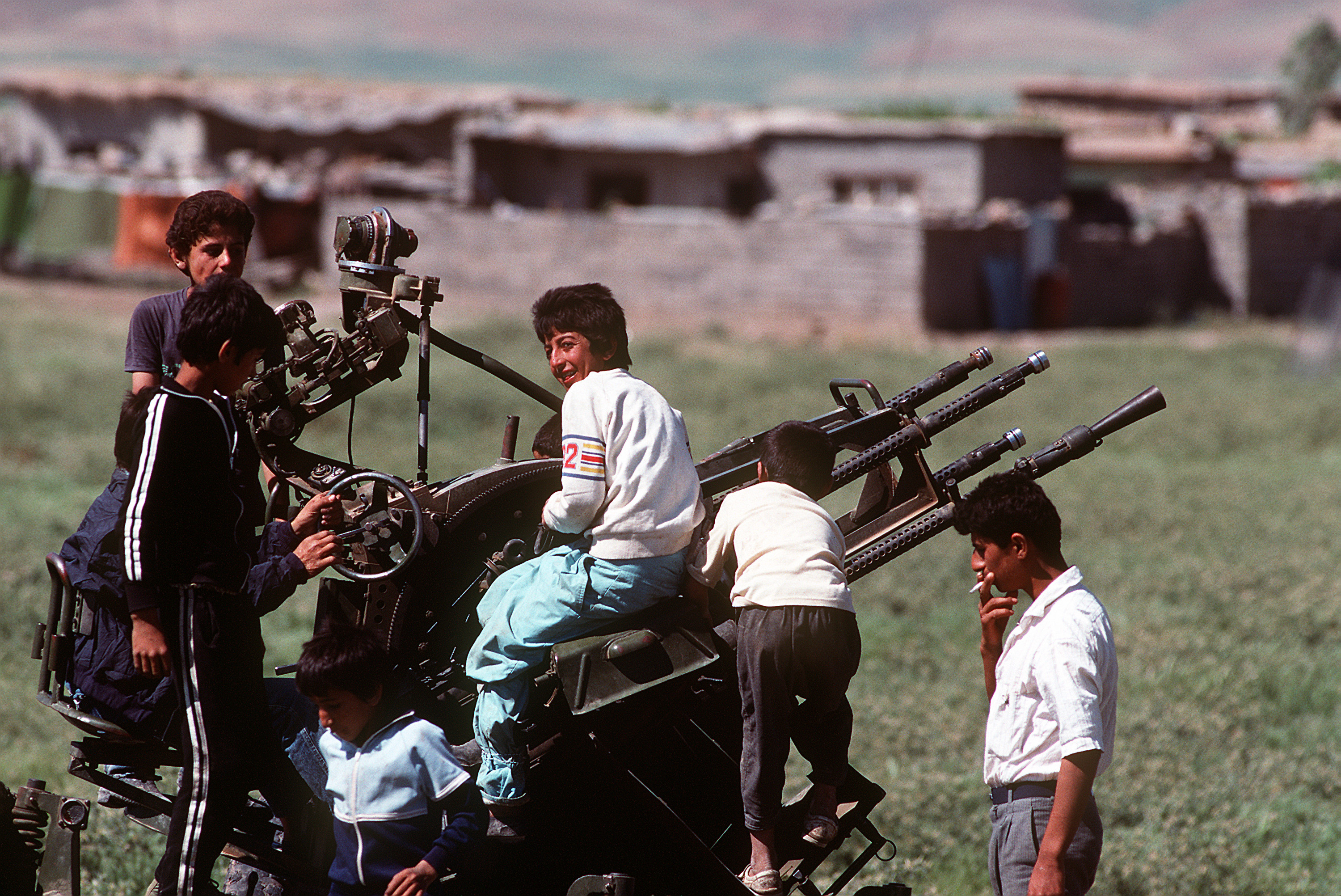 Kurdish refugee children play on a Soviet-built ZPU-4 anti-aircraft gun which was abandoned by Iraqi forces during Operation Desert Storm. The children live in a nearby camp established as part of Operation Provide Comfort, an Allied effort to aid the refugees who fled the forces of Saddam Hussein in northern Iraq.